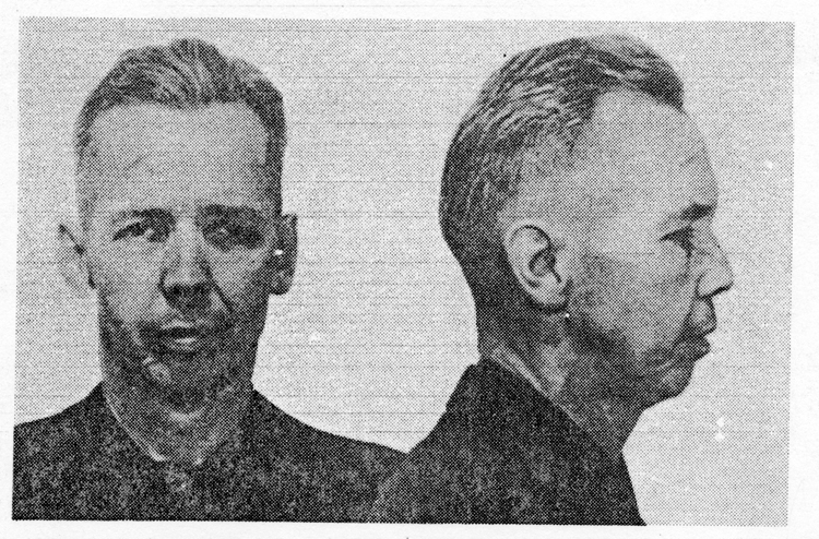 Fred William Bowerman (January 8, 1893-May 1, 1953) was an American criminal, bank robber and Depression-era outlaw. A veteran holdup man, his criminal career lasted over 30 years and was placed on the FBI's "Ten Most Wanted" list in 1953.